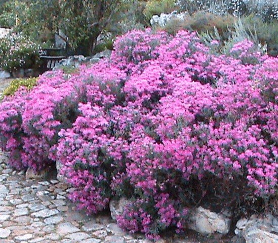 Lampranthus amoenus. Coastal Fynbos succulent of South Africa. Grown in garden flower bed.